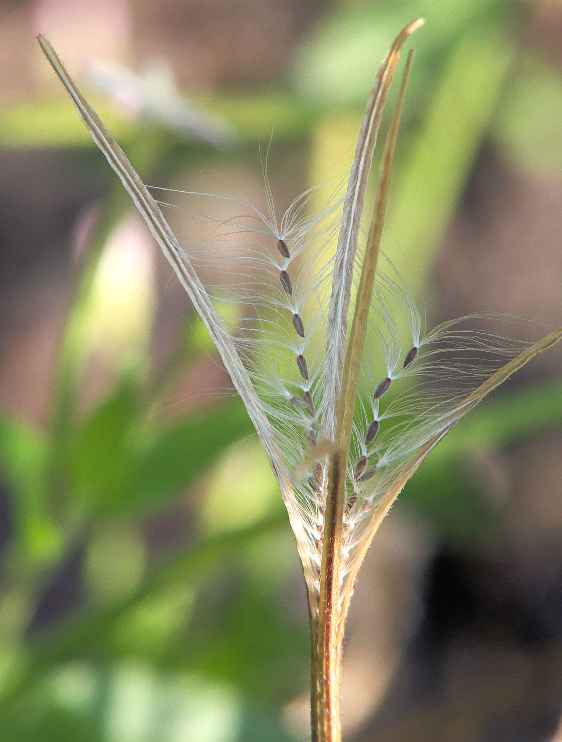 Epilobium tetragonum seeds